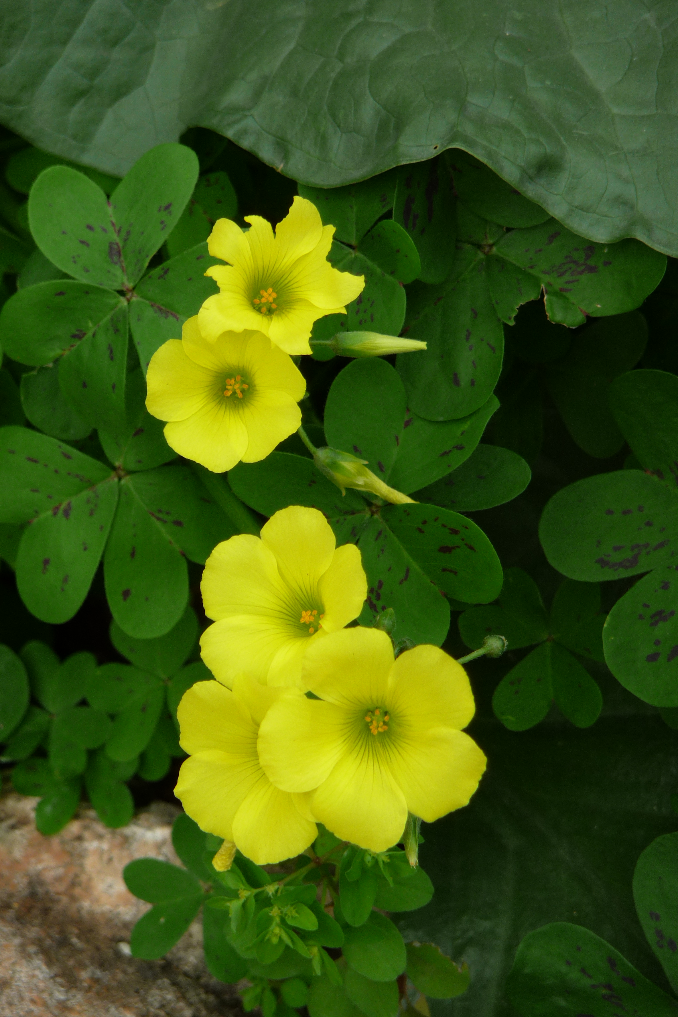 Oxalis pes-caprae in Beit Oren. Beit Oren is a kibbutz in northern Israel. It falls under the jurisdiction of Hof HaCarmel Regional Council.